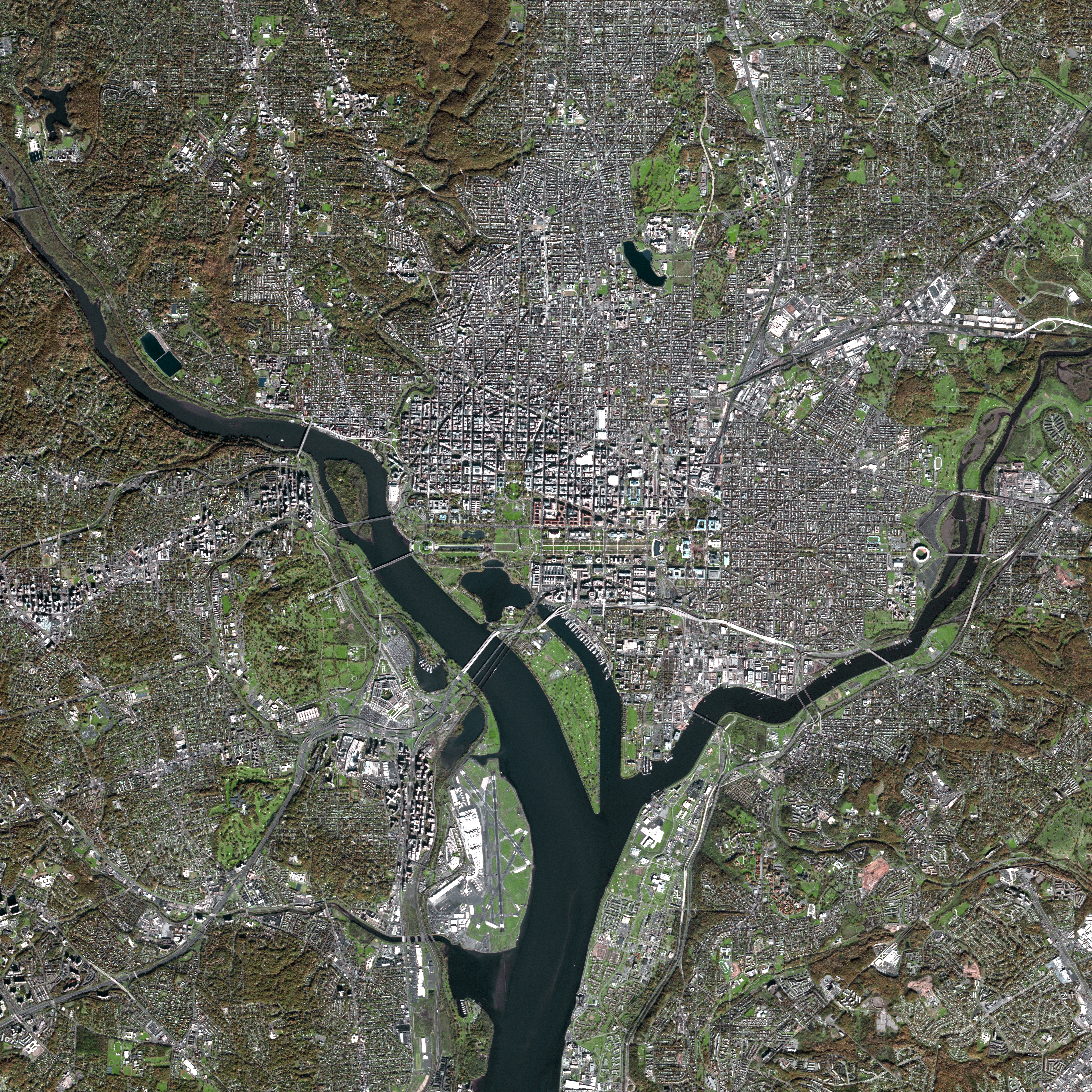 Washington by SPOT Satellite